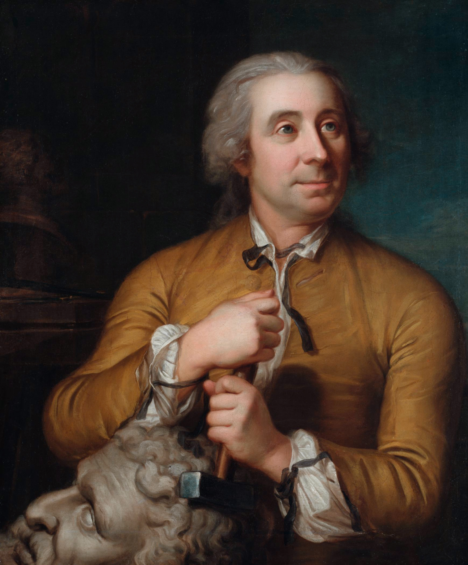 Johann August Nahl the Elder oil on canvas 77,5 x 63,5 cm 1755 inscribed verso: Emanuel Handmann zu Bern im Jahr 1755